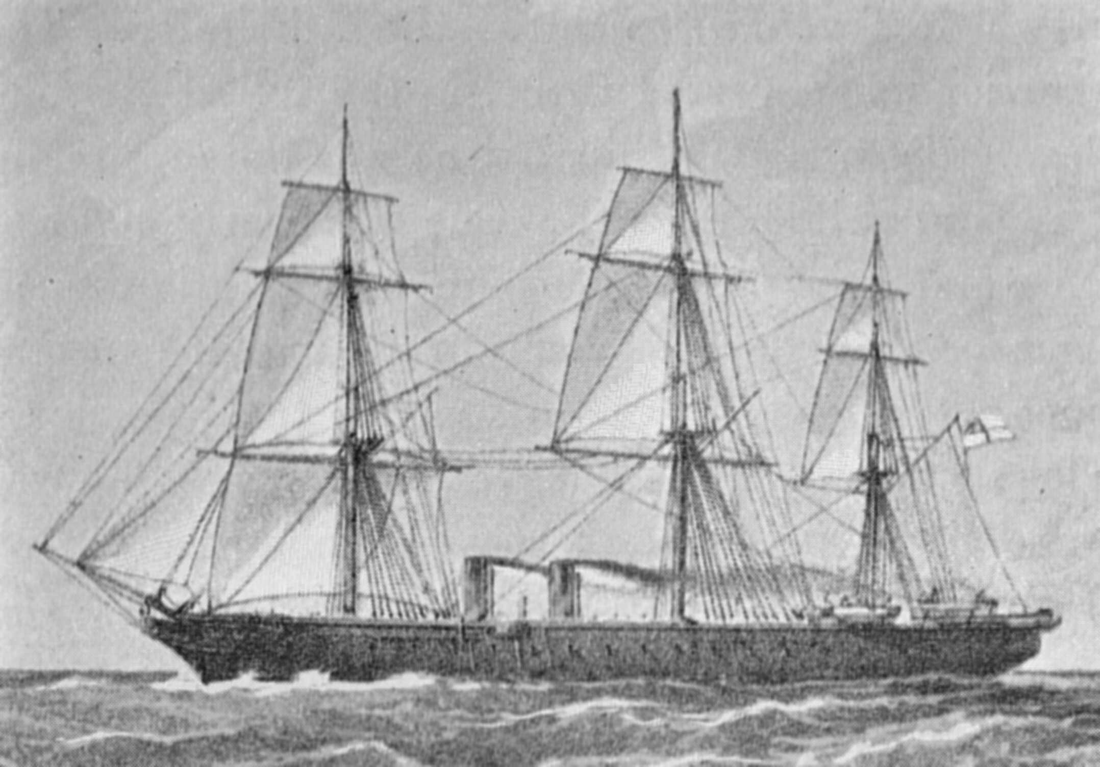 HMS Warrior (1860), first iron hulled warship, under sail. Probably copy of a painting.